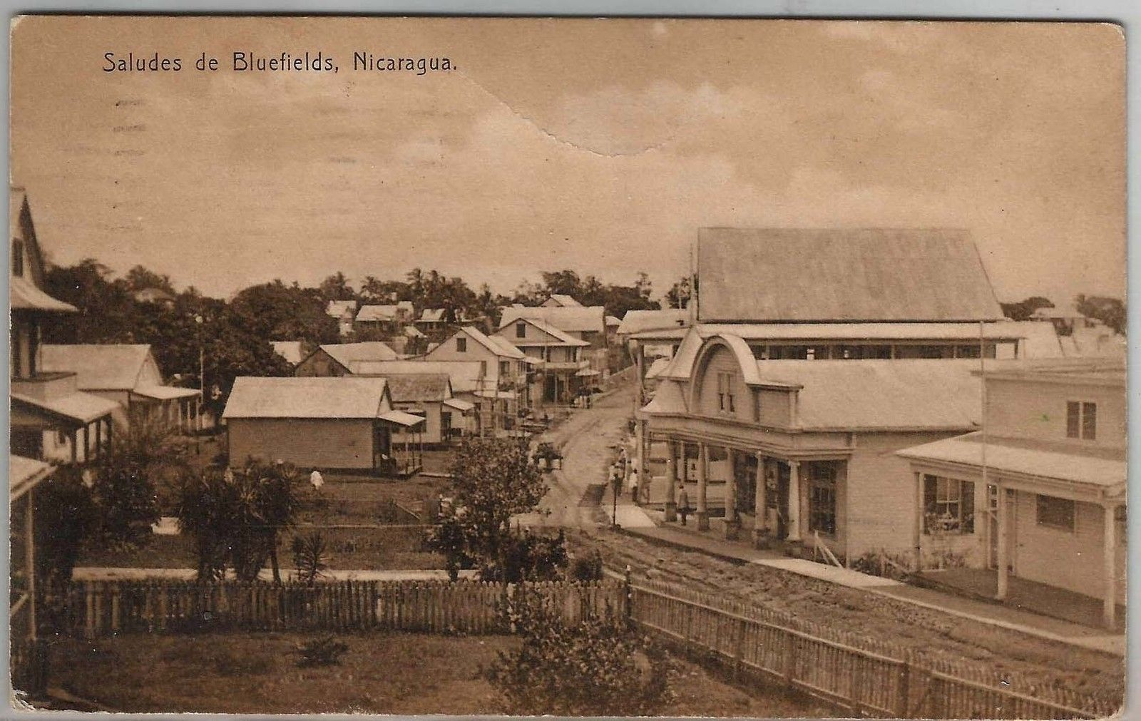 Panorama of Bluefields, Nicaragua, c. 1910. Postcard mailed in 1915.